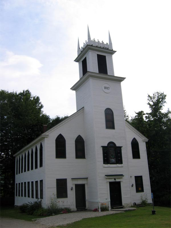 Description: Photograph of Windham church Source: Photograph taken by Jared C. Benedict on 31 July 2004. Copyright: © Jared C. Benedict.